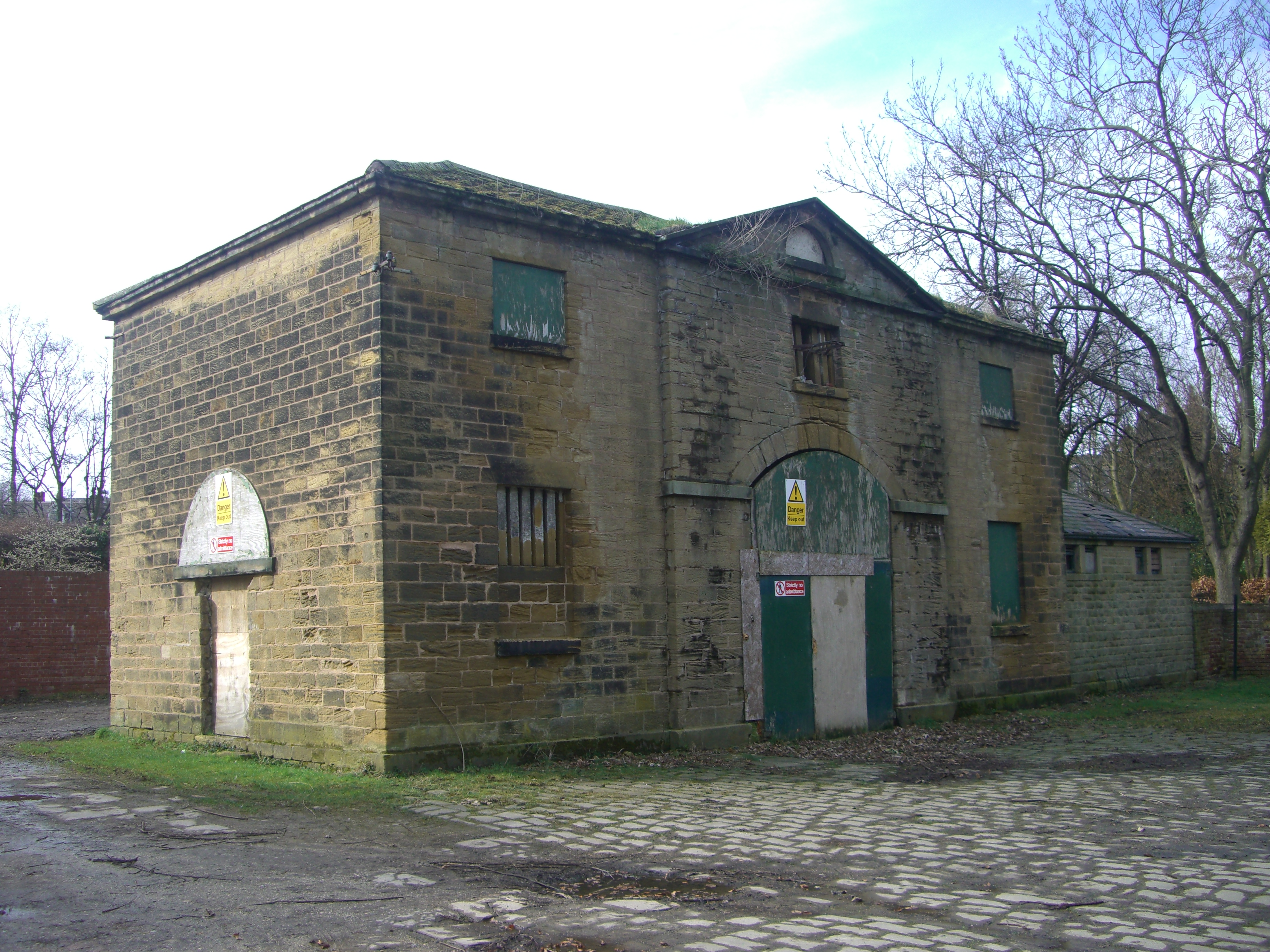 Coach house and stables of Hillsborough Hall, Hillsborough Park, Sheffield, South Yorkshire